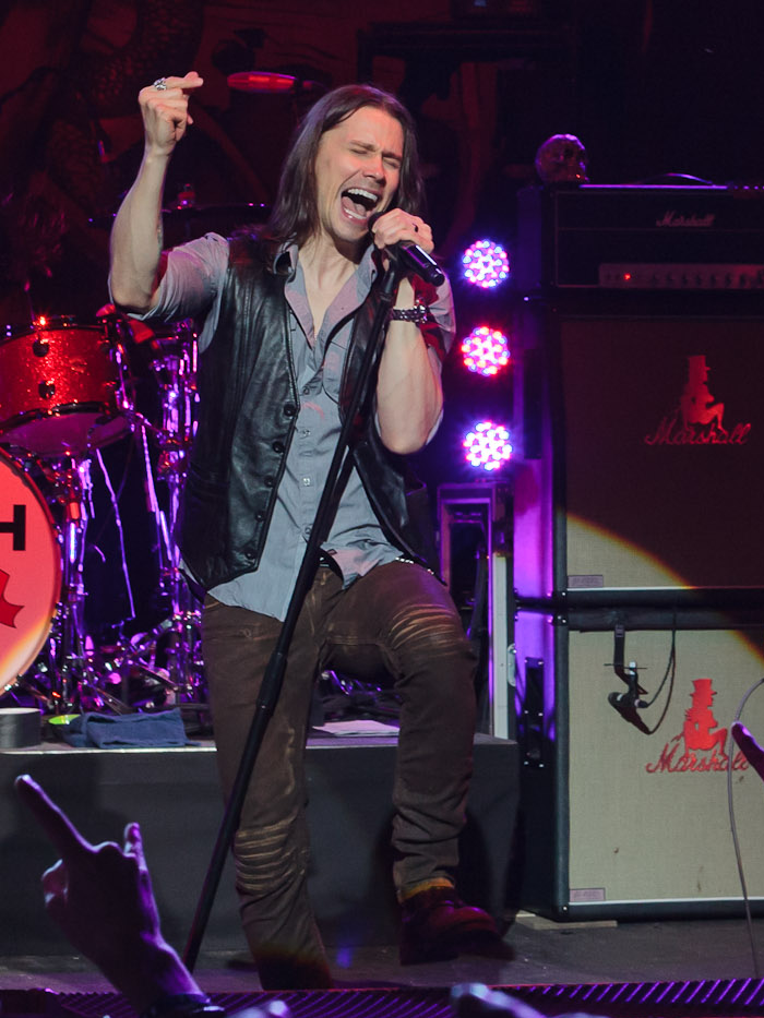 Myles Kennedy performing live at O2 Academy Brixton on 12 October 2012